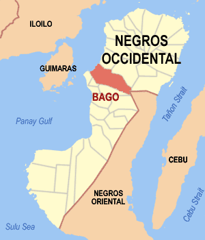 Map of Negros Occidental showing the location of Bago